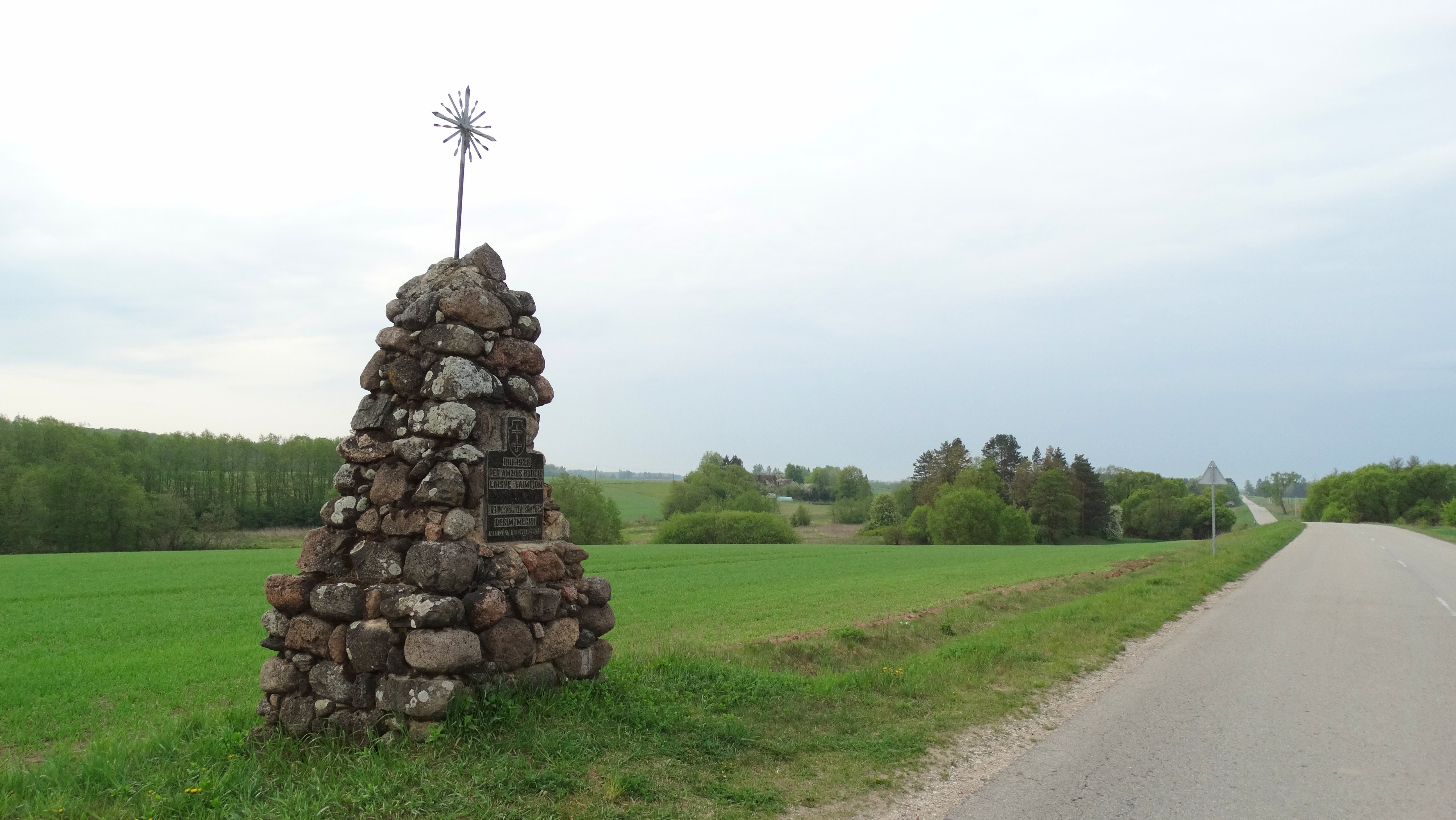 Raginėnai, Pakruojis District, Lithuania